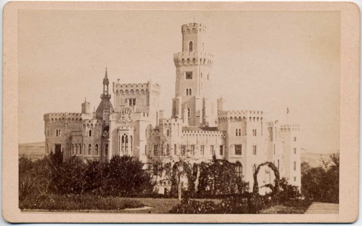 Hluboká Castle by Franz Polak, cca 1870.